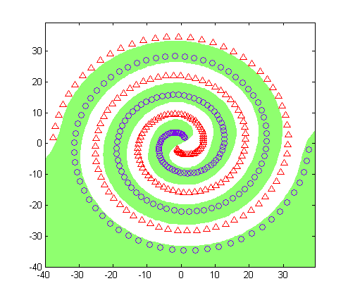 This figure shows the result of the SVM classifier on the spiral data